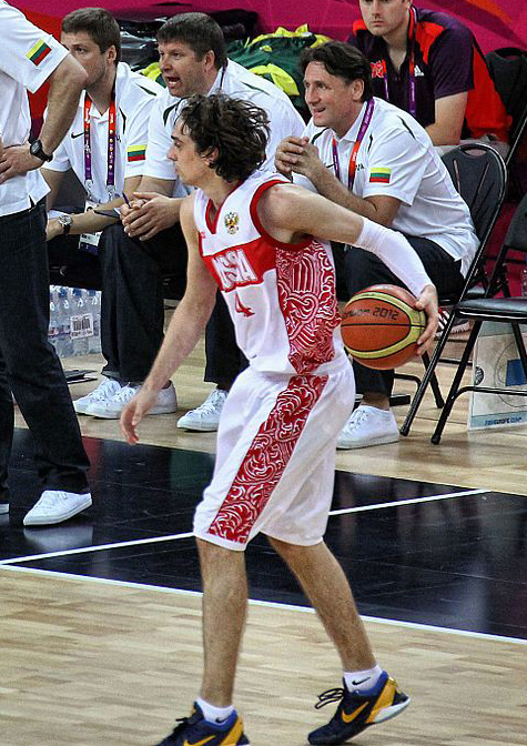 Alexey Shved of Russia